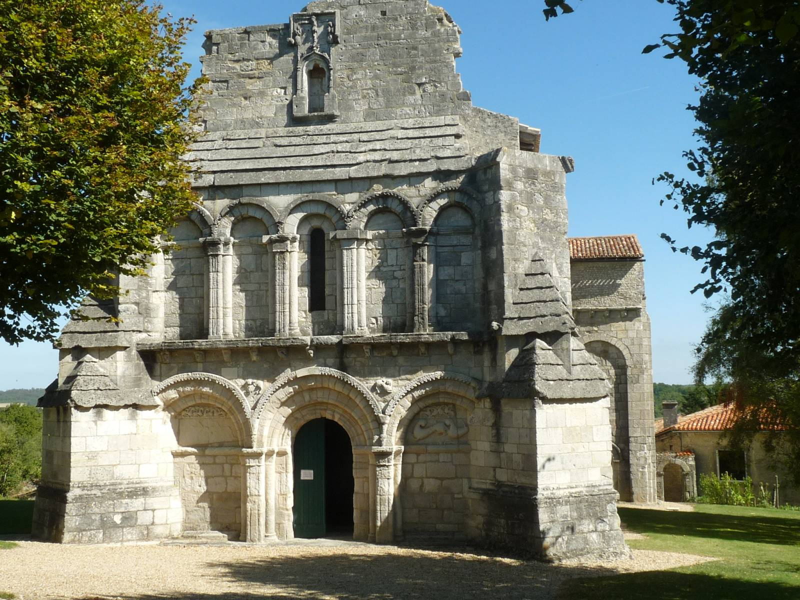 church of Berneuil, Charente, SW France